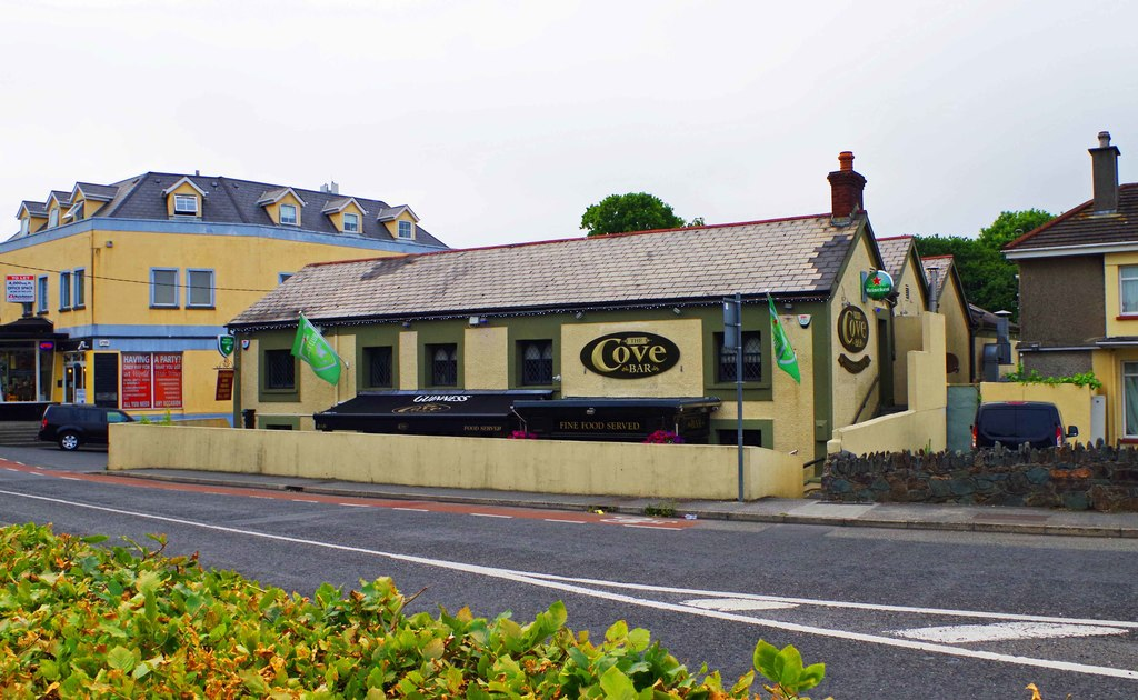 The Cove Bar, Dunmore Road, Ardkeen, Waterford